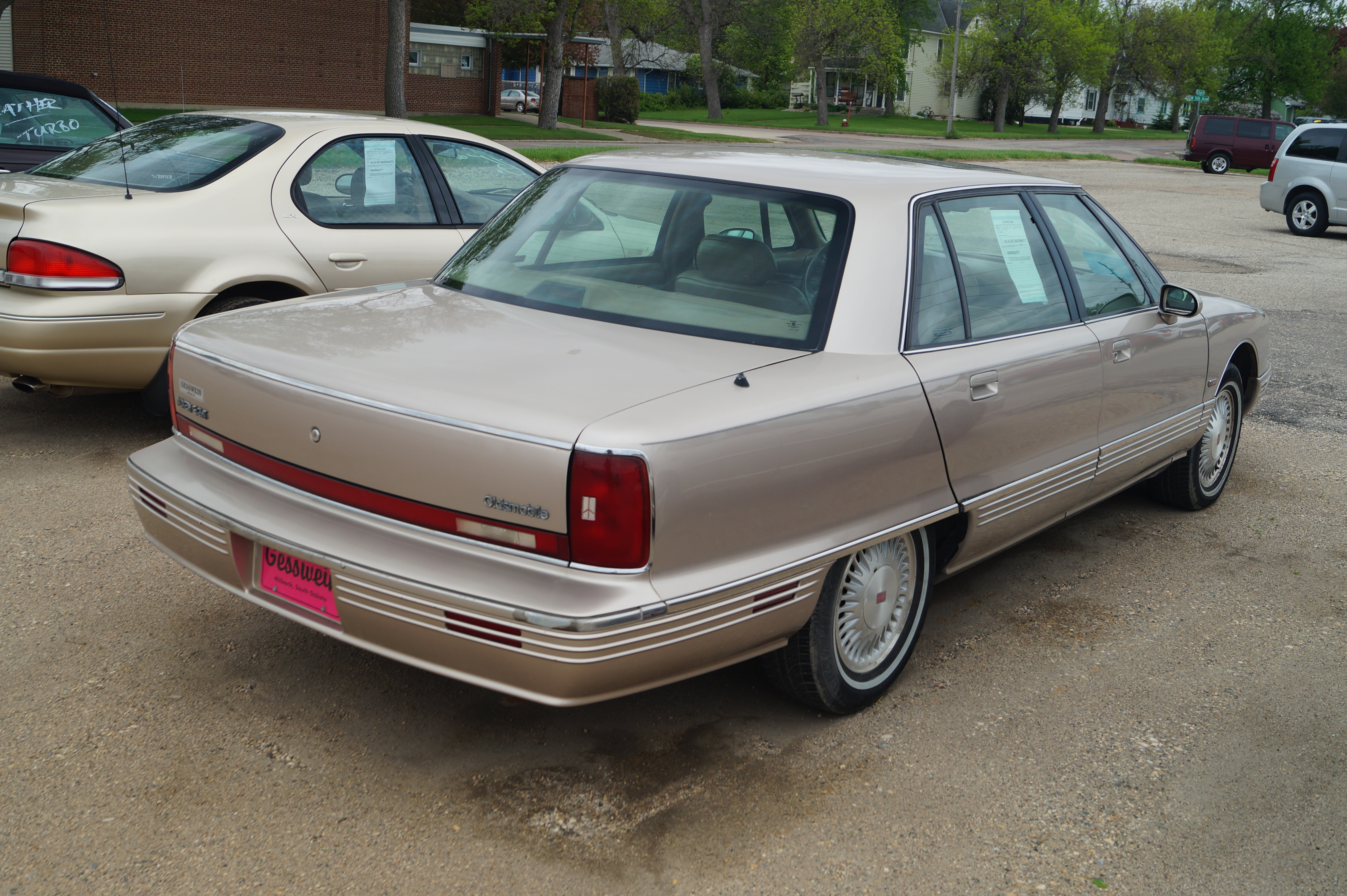 Click here for more car pictures at my Flickr site.